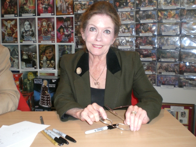 Deborah Watling at The Television & Movie Store, Norwich on 20th September 2008